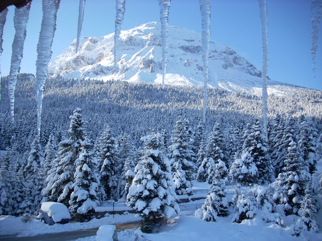 Strogula peak, 2.107 m., Tzoumerka, view from Pramanta, Epirus, Greece.